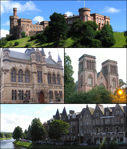 Clockwise from top: Inverness Castle, Cathedral, Ness Walk and Town Council.